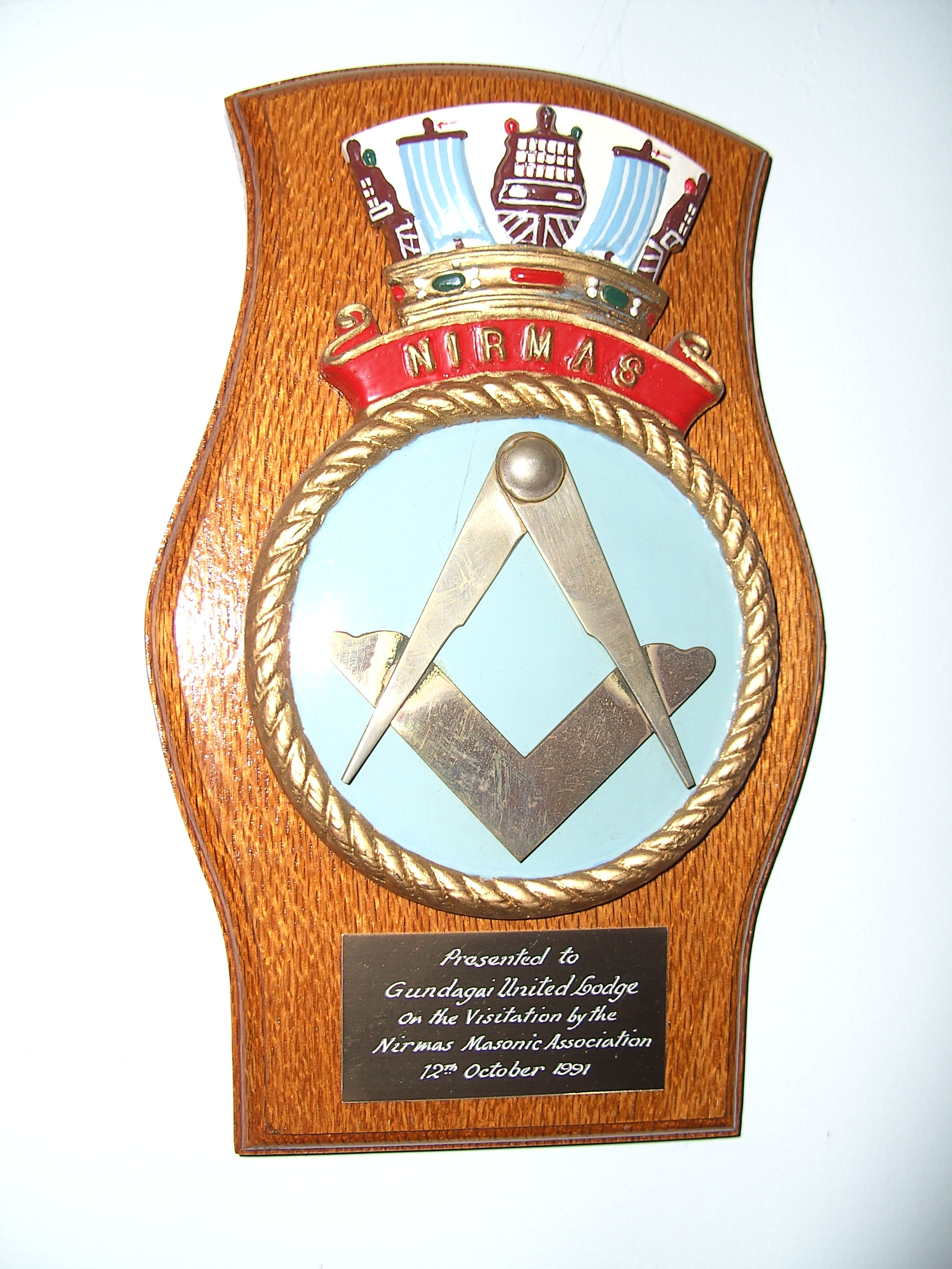 N IR MAS Masonic Association plaque dated 12 October 1991, commemorating a fraternal visit to Lodge Gundagai United No. 25, United Grand Lodge of New South Wales. NIRMAS was the masonic association for people who had been members of the Royal Australian Navy or its civilian employees, and began among the civilian instructors and apprentices of the Apprentice Training Base, HMAS Nirimba, hence "NirMas".